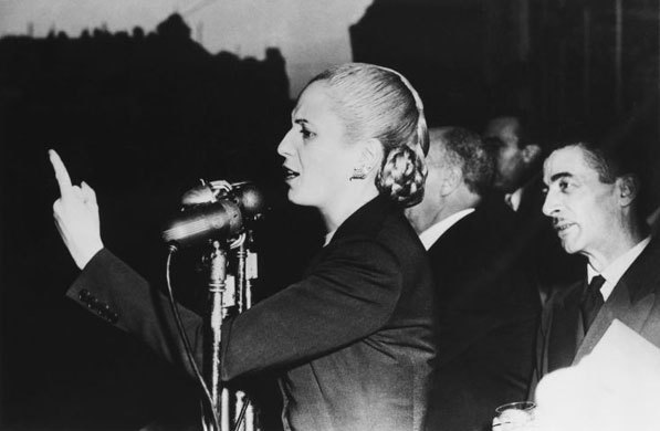 ABOUT COPYRIGHT, SOURCE, PHOTOGRAPHER: This is an image of Eva Peron on the balcony of the Casa Rosada in 1951. As specified in the below tag, this image is now of expired copyright in Argentina because it is more than 25 years old. Most images of Eva Peron are of an unknown source. The photographers are usually lost to history. For evidence of this, please visit the Wikipedia Commons and see that none of their images of Eva Peron list a photographer or source. They all say "unknown": Also, please note that the Spanish language article about Eva Peron, which is a featured article, contains pictures of Eva Peron that are of an "unknown" source. MOST HISTORICAL IMAGES OF EVITA ARE OF AN UNKNOWN SOURCE. But because they were taken in Argentina over 25 years ago, they are of expired copyright: Andrew Parodi 19:30, 2 March 2007 (UTC)